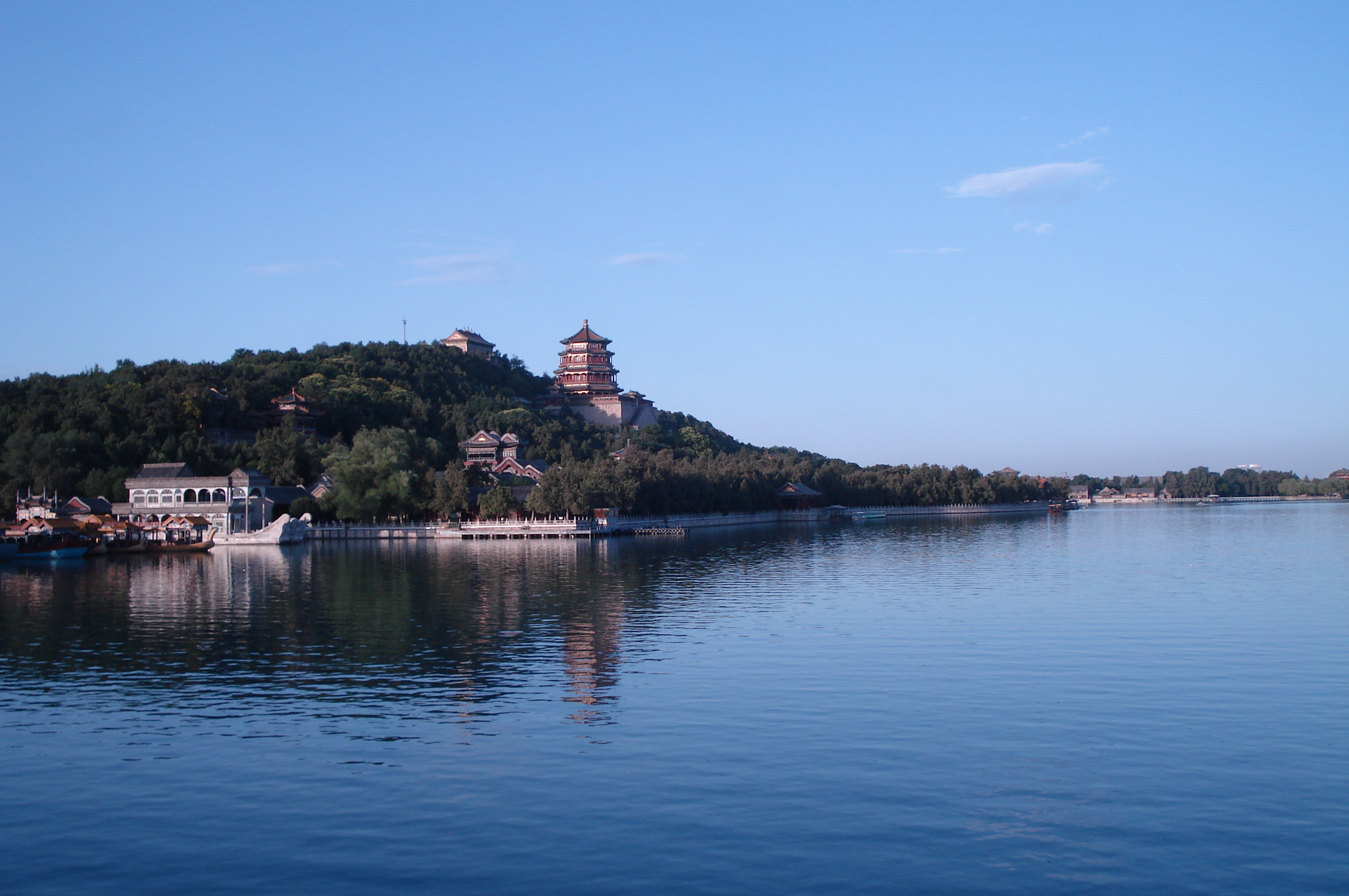 Scenery of Longevity Hill